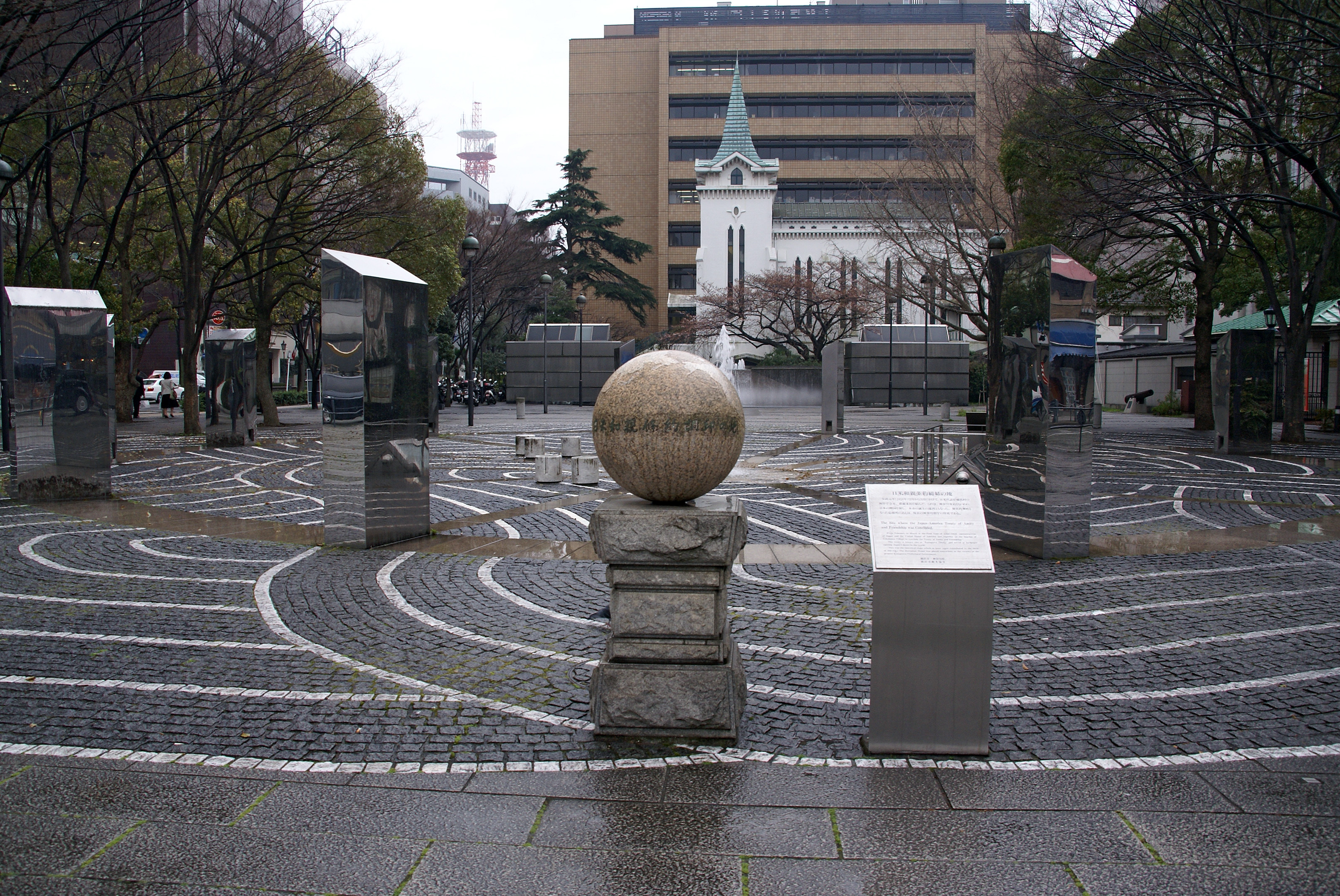 Historical site of Yokohama, Kanagawa, Japan